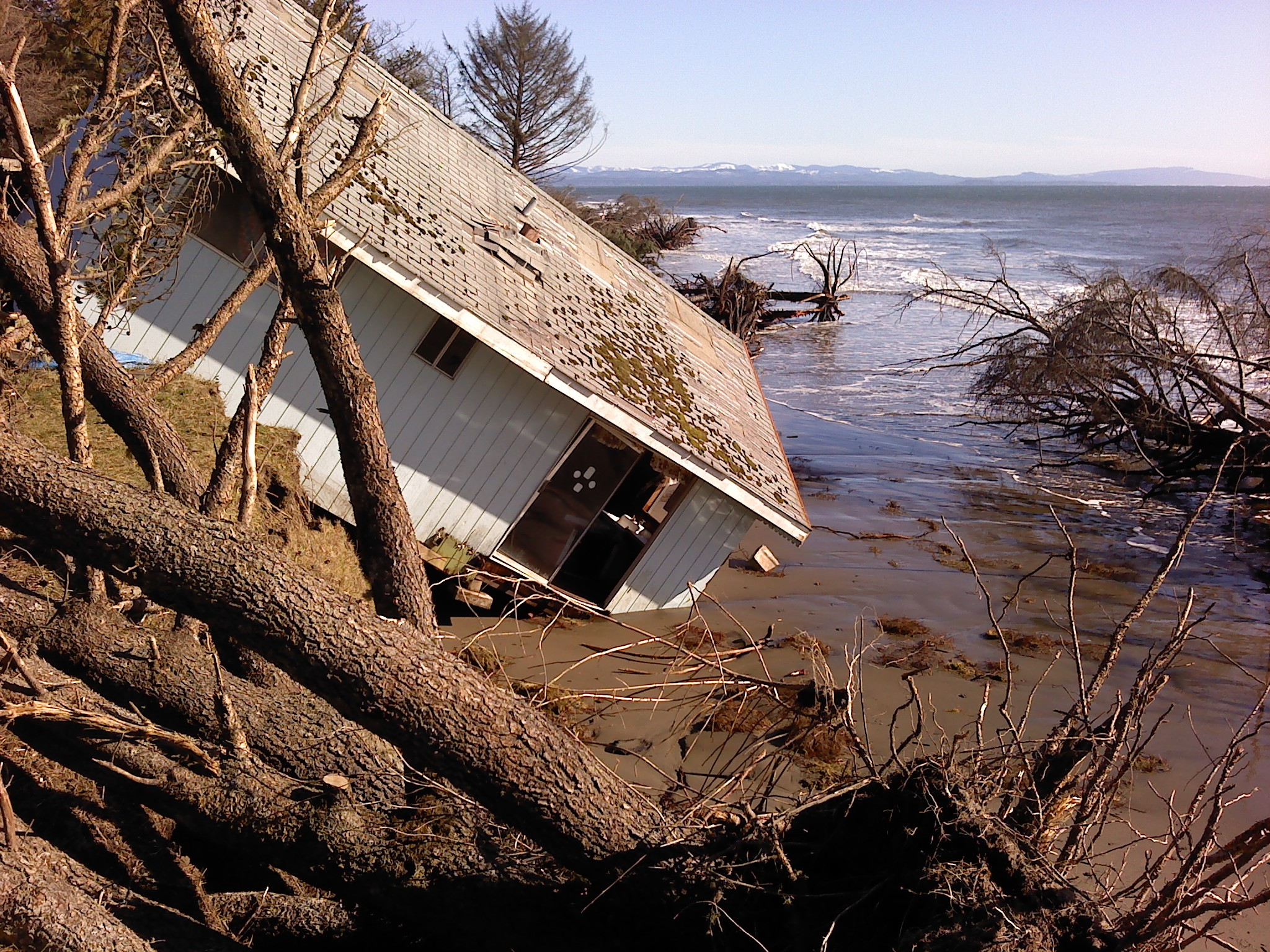 Washaway Beach scene 2